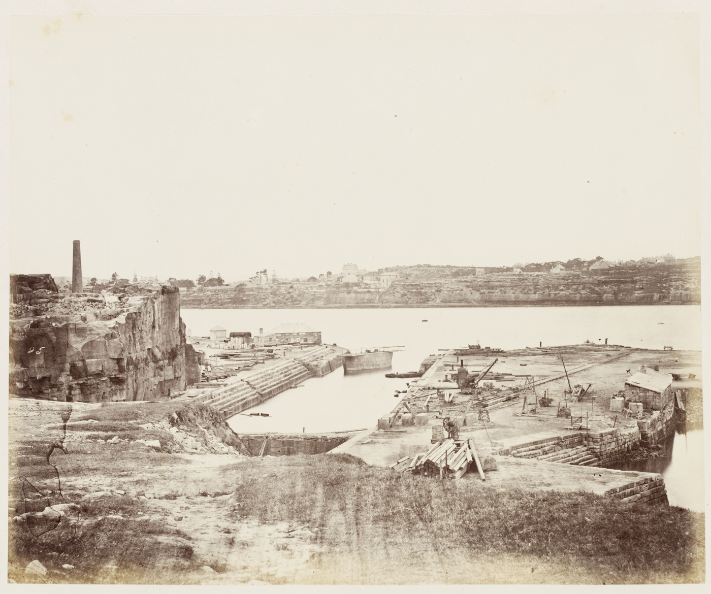 147. Dry Dock, Cockatoo Island SH 258